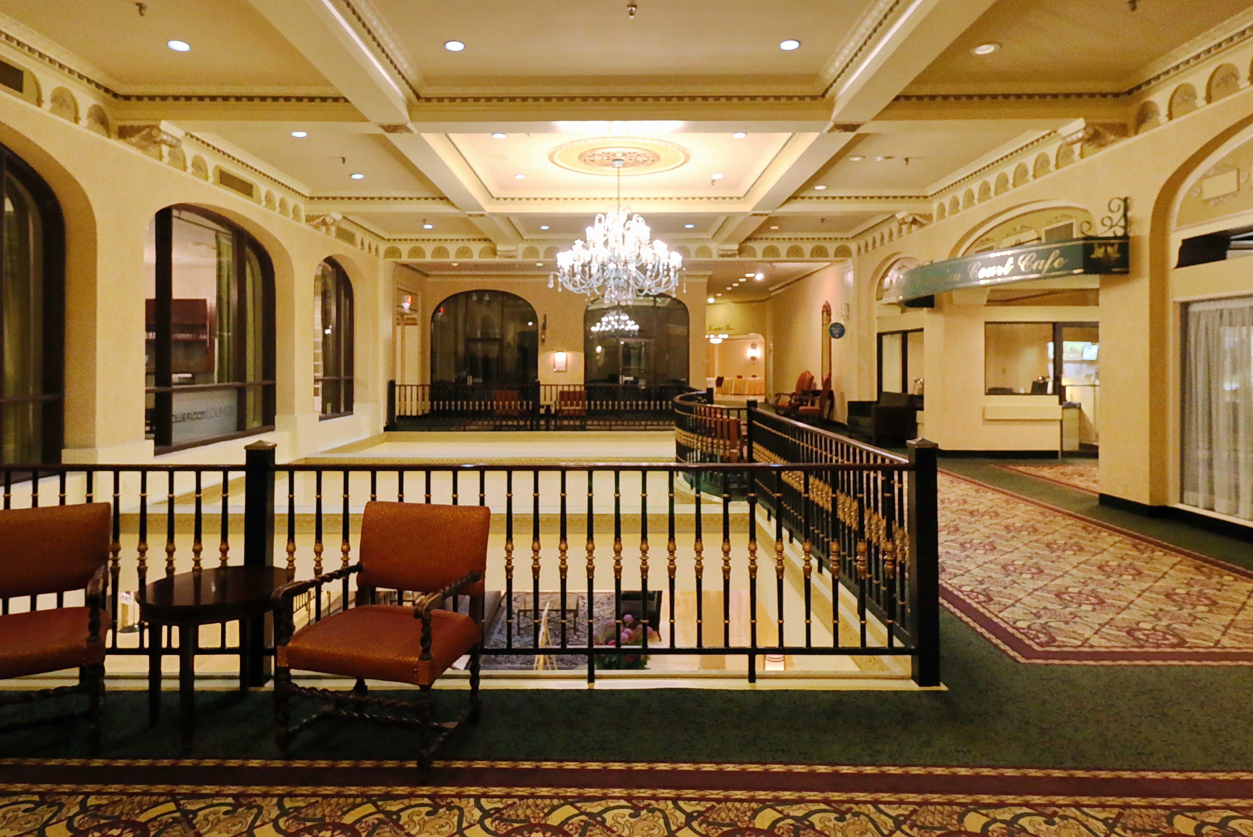 Delta Bessborough, Spadina Cres E, Saskatoon, Saskatchewan, Canada